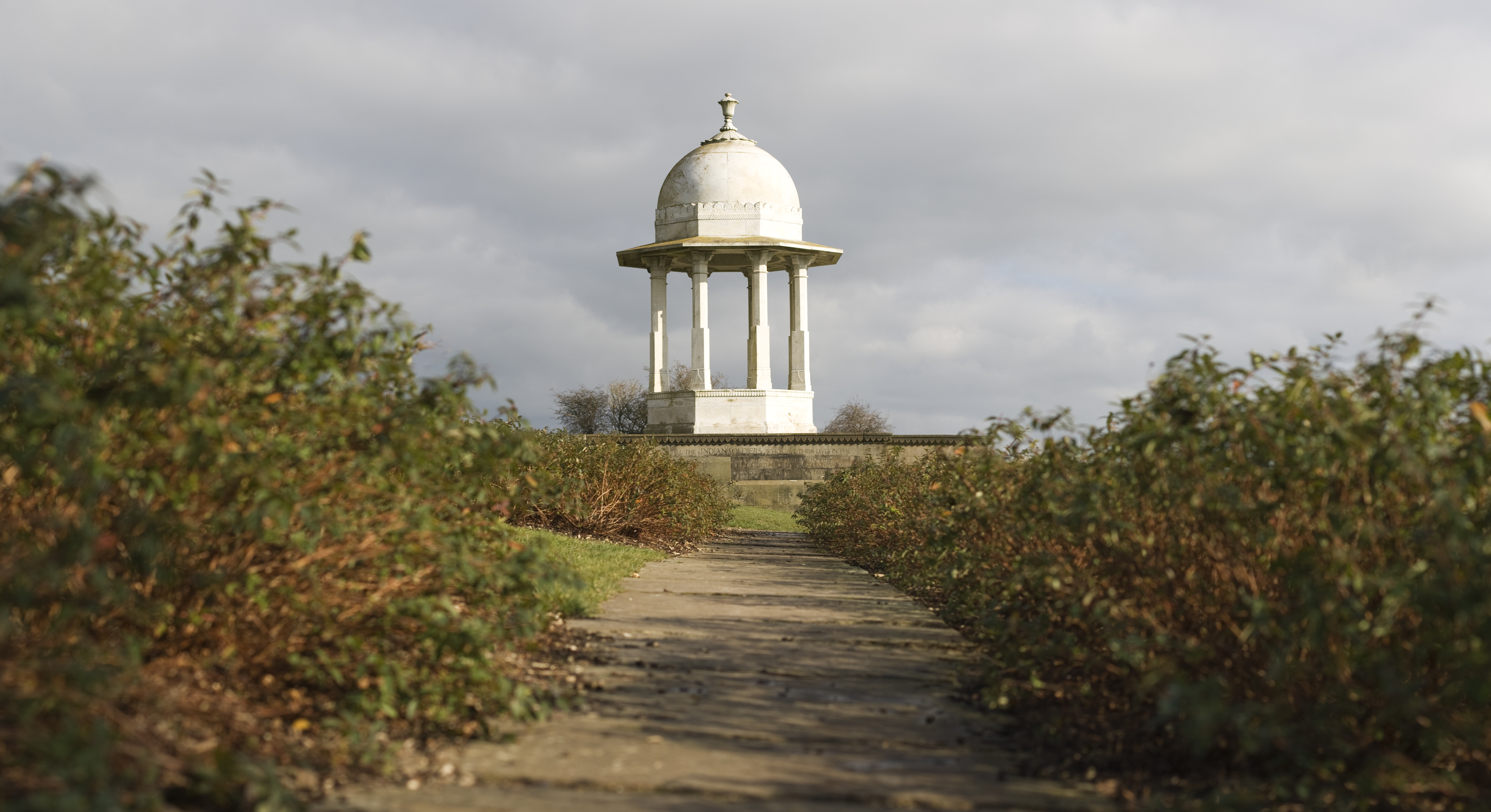 chattri from the south west